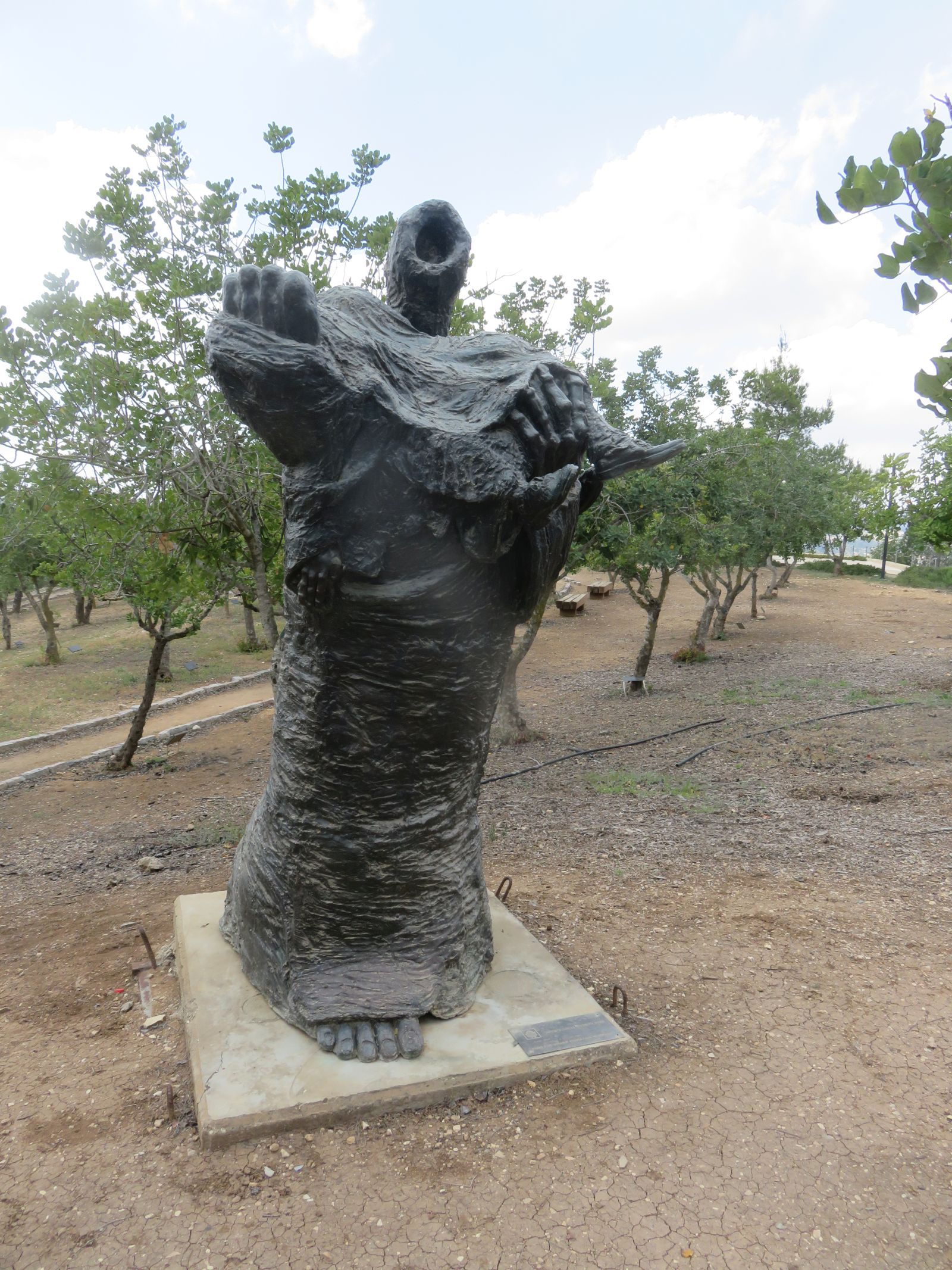 Sculpture by Ilana Gur at Yad Vashem לעולם לא עוד